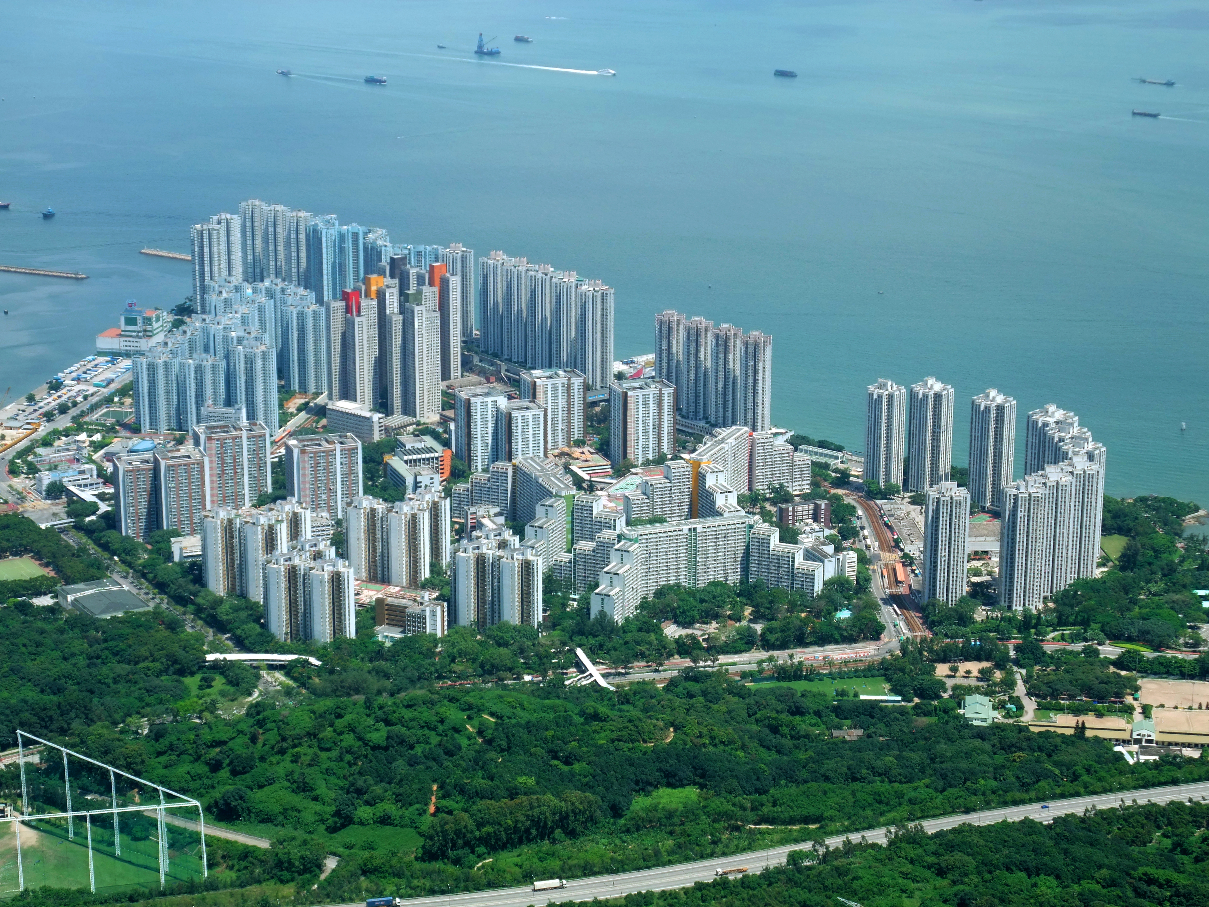 Photo of Butterfly Estate